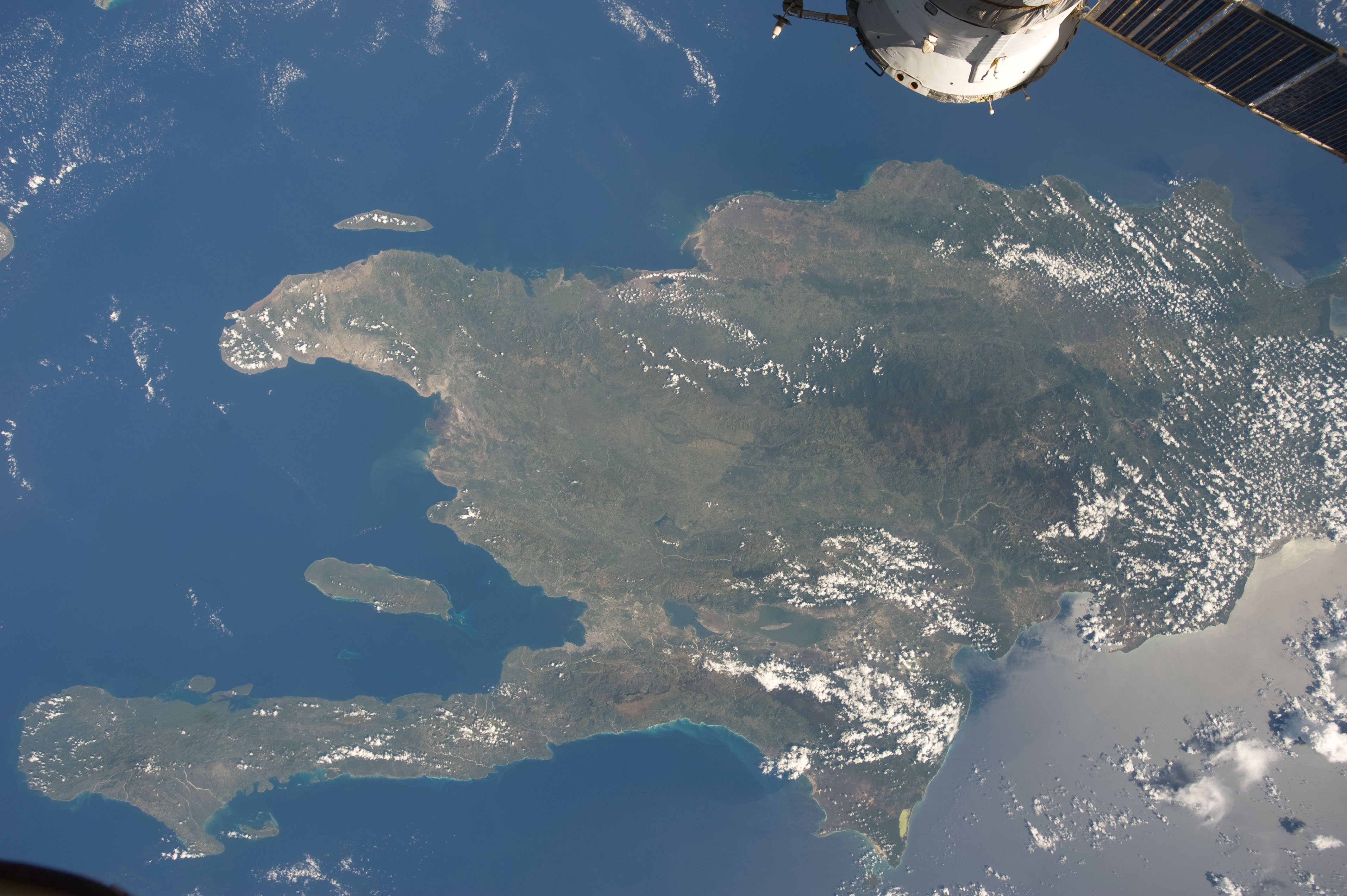 A view of the Caribbean island of Hispaniola from the International Space Station. This island is comprised of Haiti (in the center left of the image) and the Dominican Republic and is part of the Greater Antilles island chain which lies along the geological border of the North America Plate and the Caribbean Plate. A major fault line in the region, Enriquillo-Plantain Garden Fault, runs along the longer peninsula, in the foreground, and just south of Port-au-Prince. Part of a docked Russian spacecraft can be seen in the foreground. The epicenter of the disastrous 2010 earthquake occurred near this fault. This image was taken by the Expedition 20 crew on the International Space Station on Sept. 28, 2009 using a 25 mm lens setting.